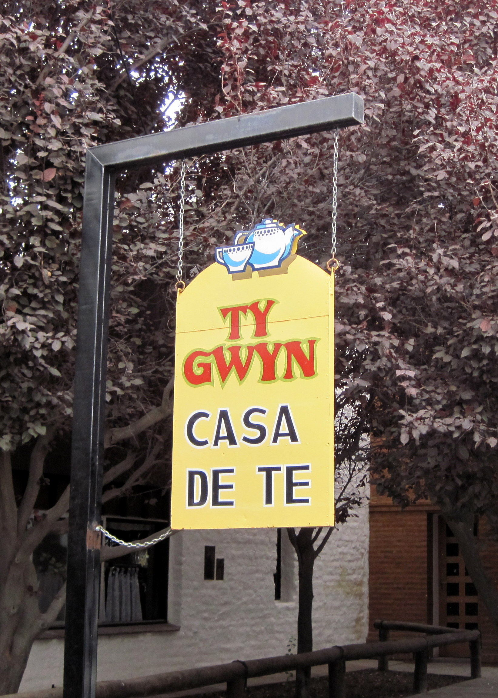 Sign for "Ty Gwyn" Welsh teahouse in Gaiman, Chubut, Argentina